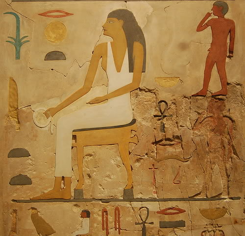 Itet in a scene originally from Nefermaat's tomb in Meidum. Now in the Oriental Institute in Chicago.